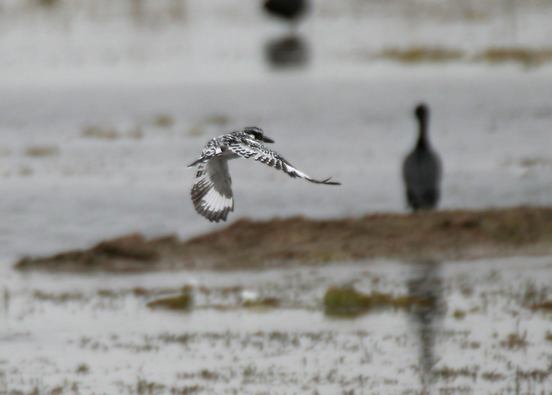 Pied Kingfisher Ceryle rudis - Sind: Kingar, Hindi: Kaudiala, Kauriala, Kilikila, Sans: Kapdrik meenrak, Kash: Hor kola tonch, Pun: Kilkila, Bi: Karona, M.P: Chitla Kilkila, Ben: Phatka machhranga, Karikata, Sufaid tont, Duddru, Ass: Pokhora masroka, Cachar: Dao natu meberang, Hanumanta sorai, Mani: Ngarakpi, Wakrek, Gomera pilihuduwa, Naga: Inrui gna, Guj: Kabaro kalkaliyo, Kutch: Kirkiria, Mar: Kilkila, Kavda dhivar, Ta: For kingfishers – Meenkotti, Te: Neella buchigadu, Mal: Pulli ponman, Kan: Kappu bili meenchulli, Sinh: Kallapu pilihuduwa- in Hyderabad, India.